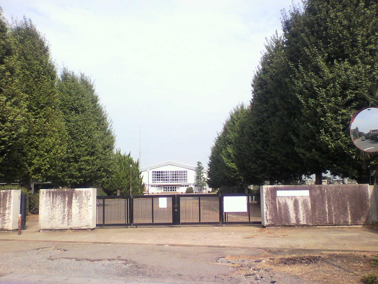 This is a technical high school in Japan.